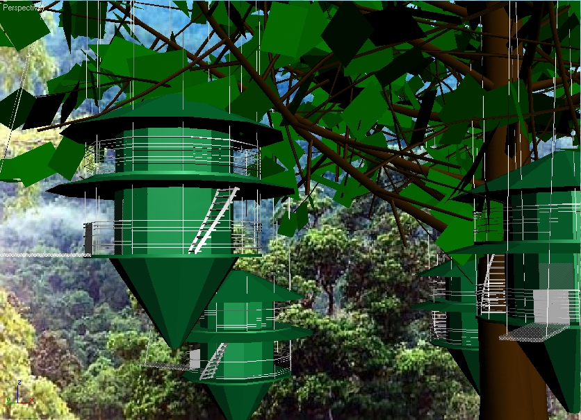 3D design for a treehouse-village with super-lightweight materials. Treehouses can sink to the ground via chainhoist